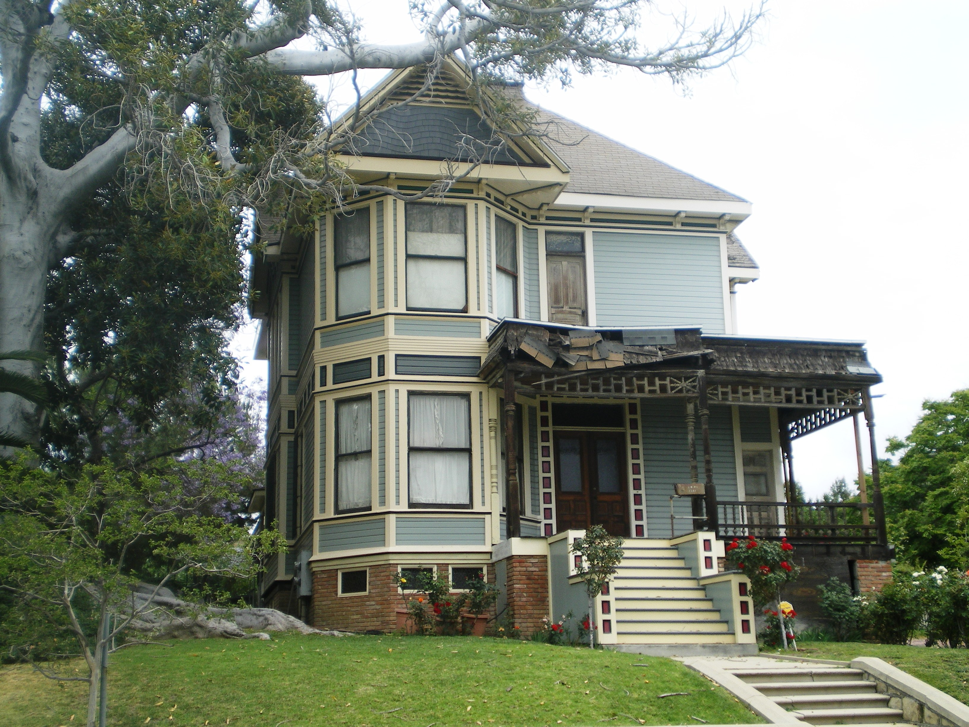 Victorian house at 1345 Carroll Ave., in Angelino Heights, Los Angeles, California.